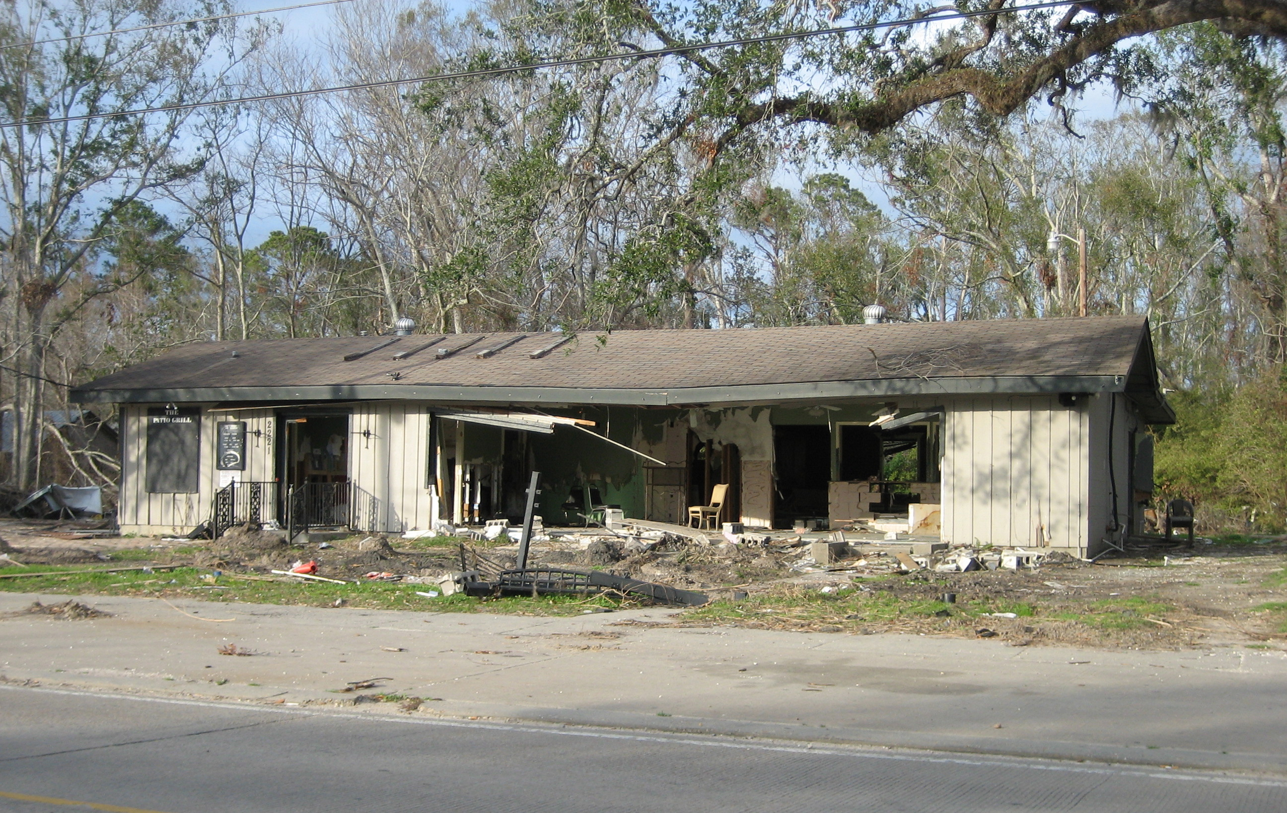 Mandeville, Louisiana after Hurricane Katrina: Storm surge smashed building near the Lake Pontchartrain shore. Photo by Infrogmation